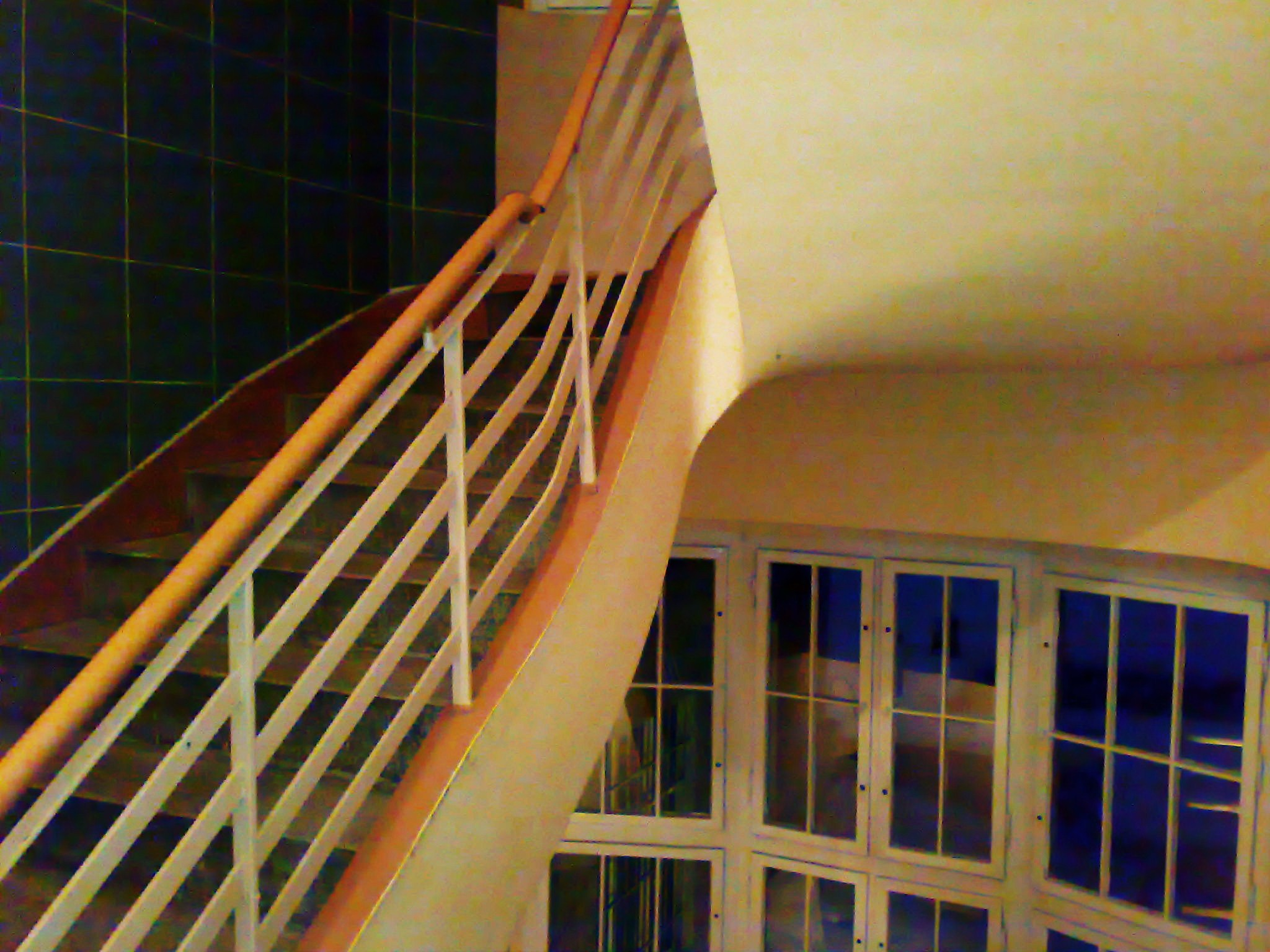 Michaelis & Kantorowicz Warehouse, Poznan. Interior.